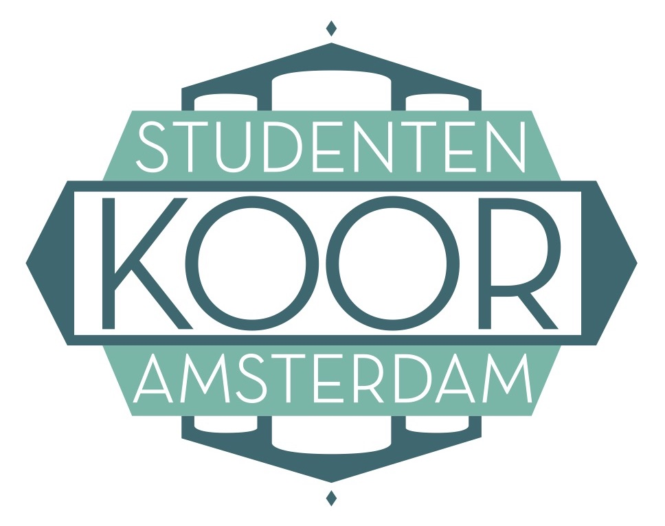 Logo of the Student Choir of Amsterdam (Studentenkoor Amsterdam) as of sept 2017